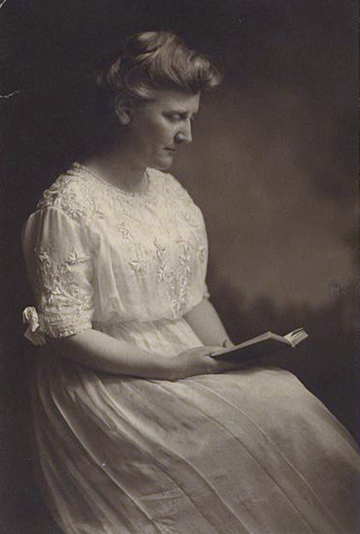 NAACP founding member Mary White Ovington (1865-1951)